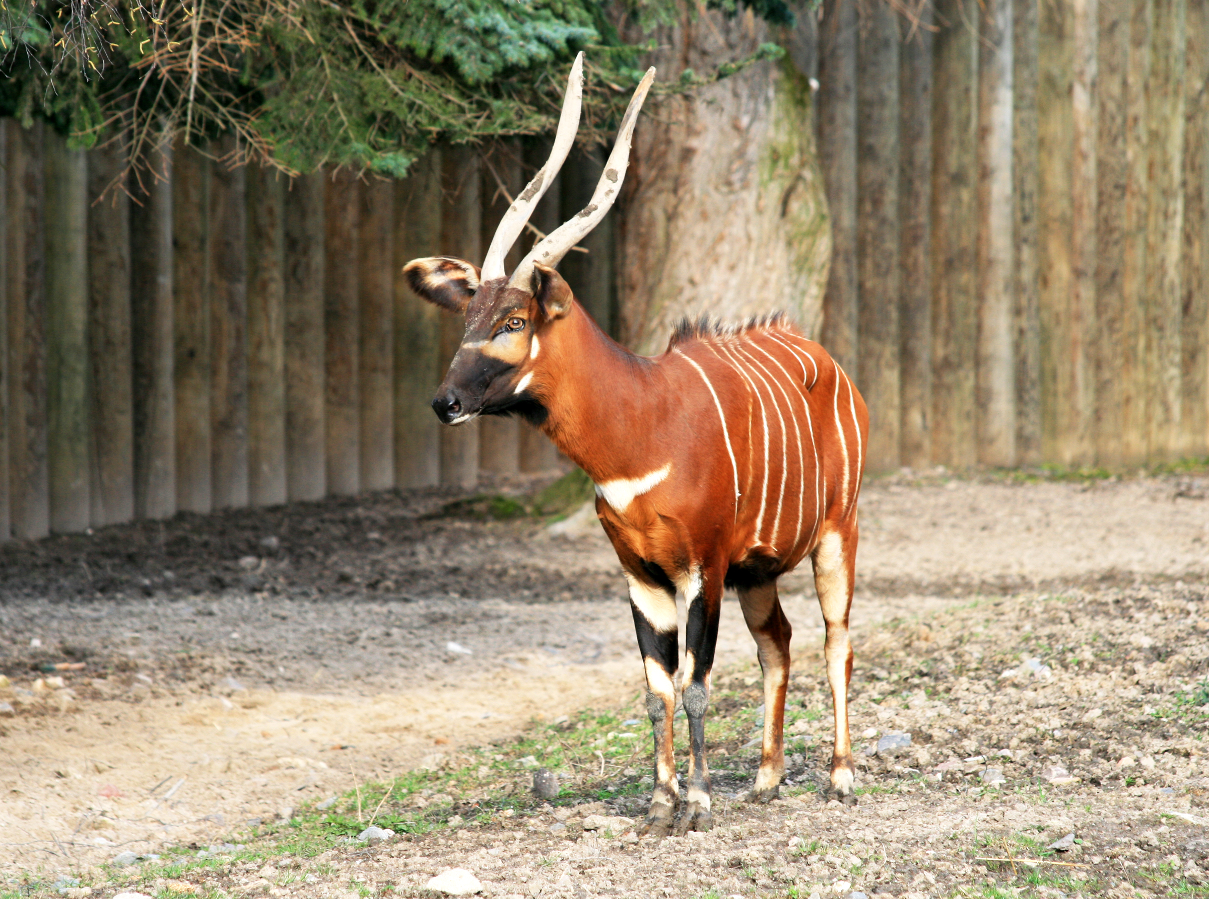 Antelope Bongo, Tragelaphus eurycerus in ZOO Dvůr Králové, Czech Republic Česky: Antilopa bongo lesní, Tragelaphus eurycerus, zoo Dvůr Králové nad Labem, východní Čechy